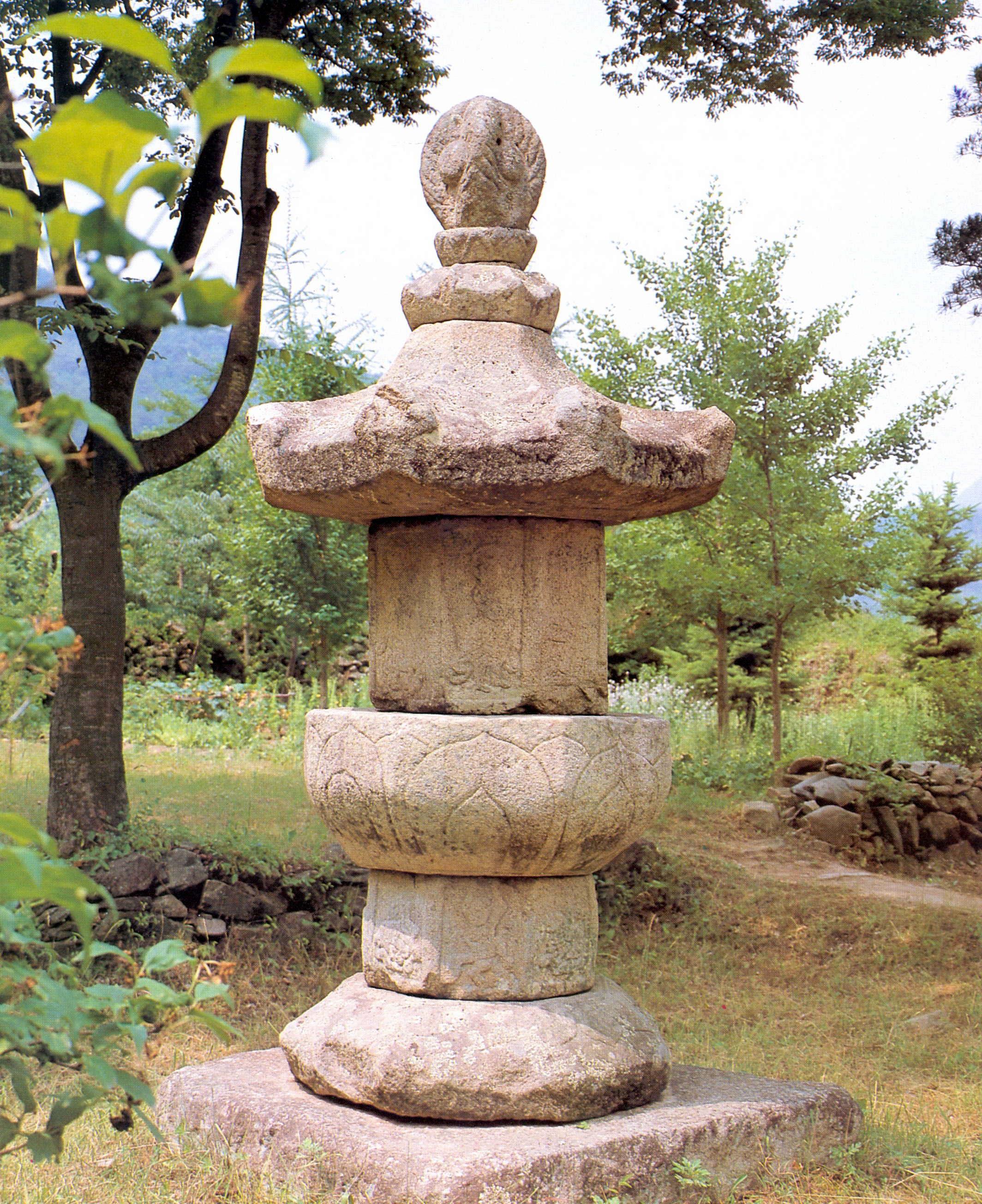 Stone Stupa of master Bogak at Ingaksa Temple in Gunwi, Korea